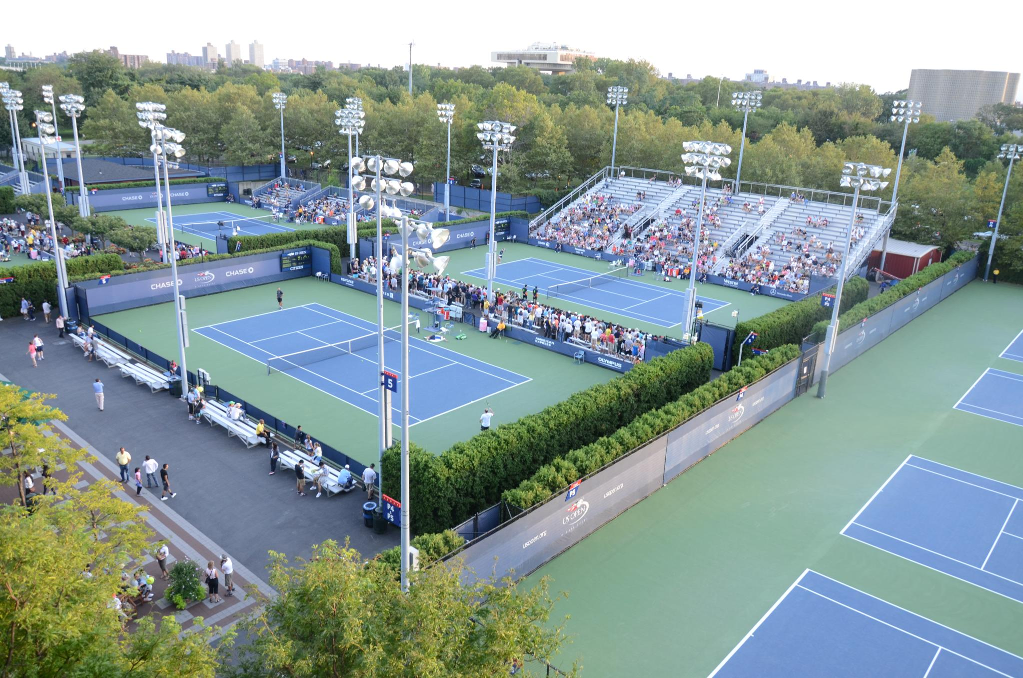 Flushing meadows New York